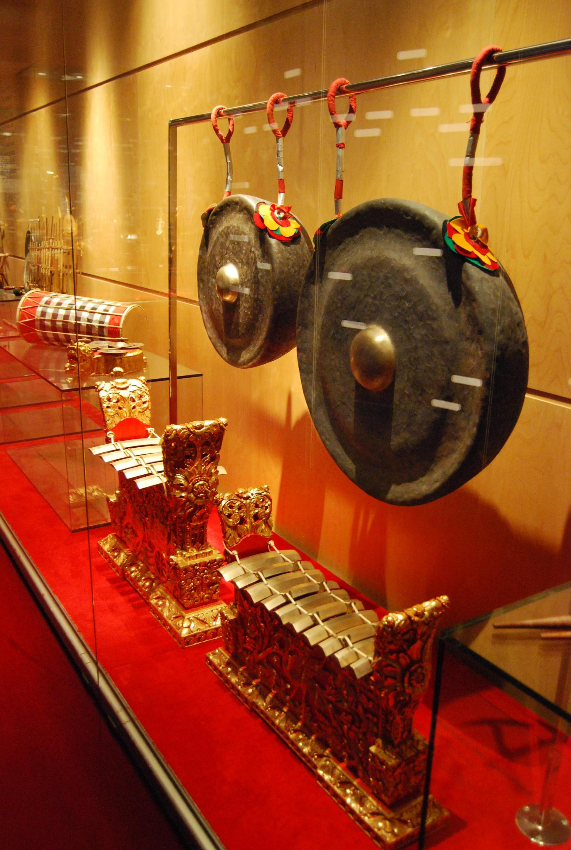 Gamelan in the Museu de la Música de Barcelona